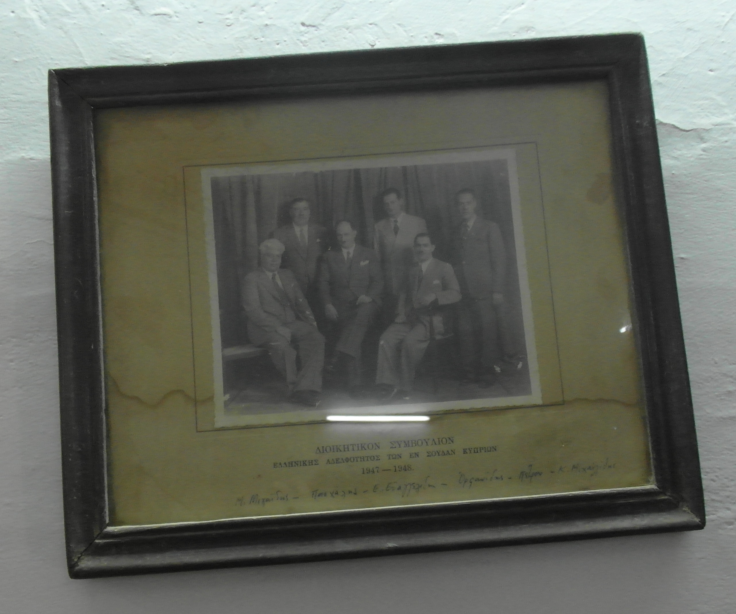 A framed photo of board members from 1947-1948 on the wall of the main hall in the Hellenic Community Centre in Khartoum, Sudan